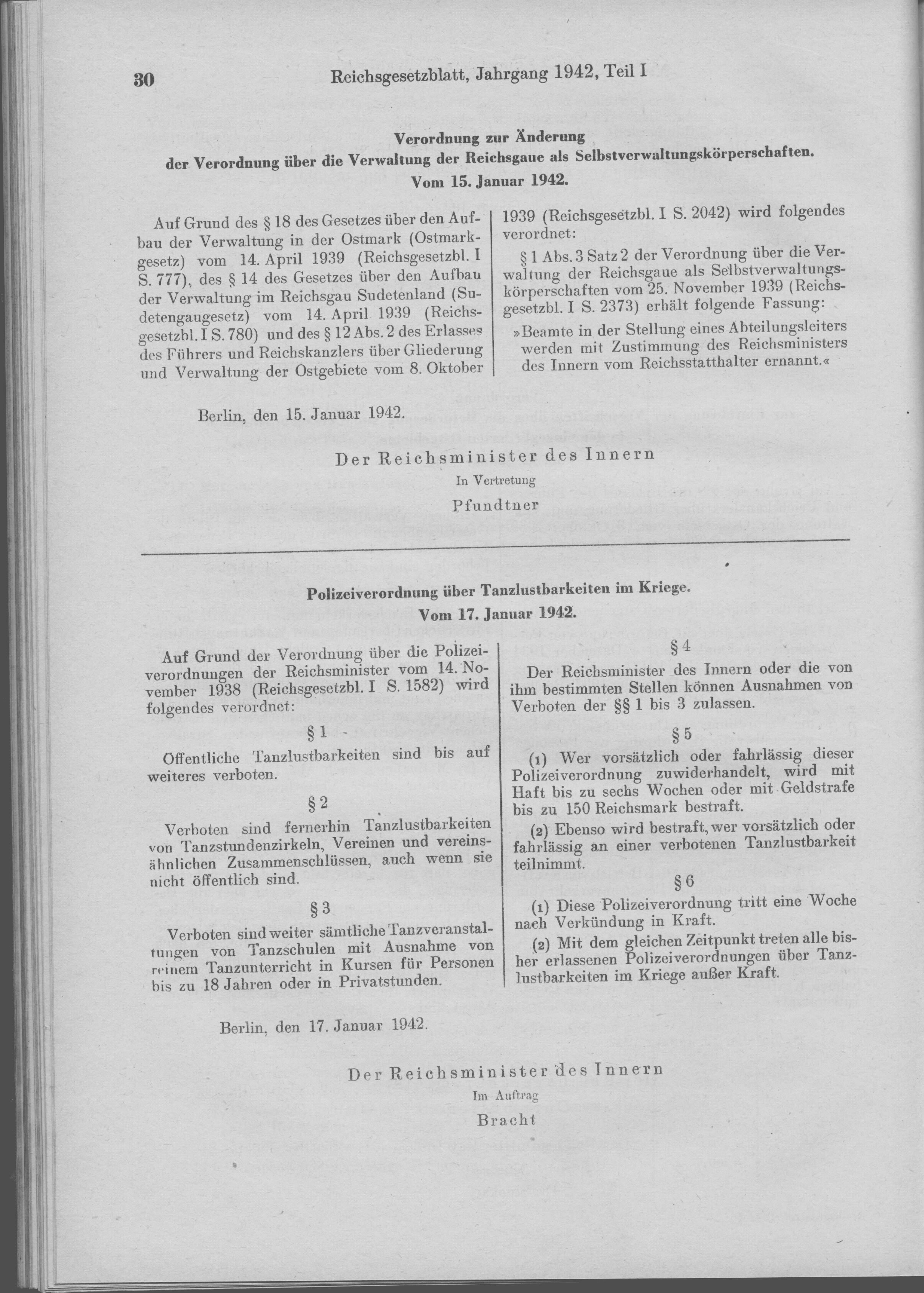 Scan from the Imperial Law Gazette of Germany, 1942, part 1